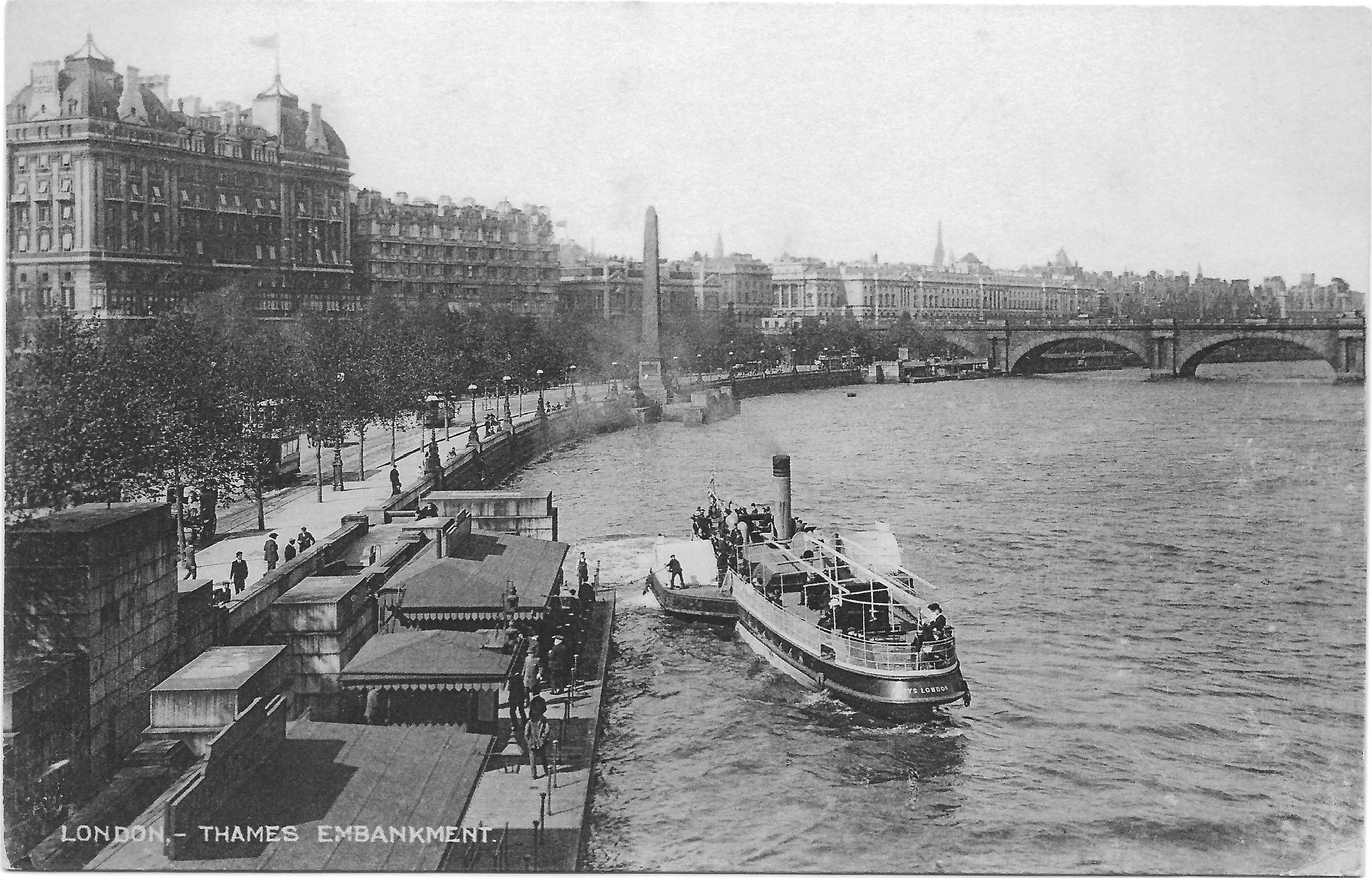 The Victoria Embankment. Trams can also be seen. PS Pepys, built 1905 by Rennie at Greenwich, a subcontractor of J I Thornycroft of Southampton. Served London County Council's River Thames service from Greenwich to Hammersmith 1905-1907. Taken over by the City Steamboat co for the 1910 and 1912 seasons for continued use through London. Sold in 1913 to the Cie,. Lyonnaise de Navigatiuon et Remorquage at Lyon, France, and renamed Ville de Valence See